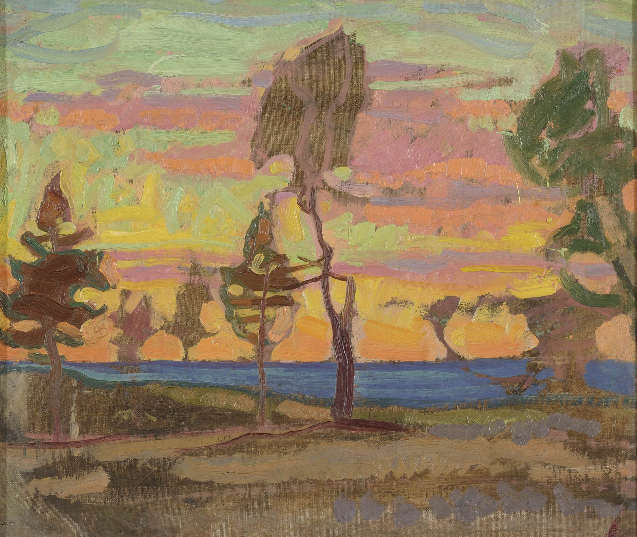 Nikolai Triik "Finnish Landscape", 1914, oil/canvas.